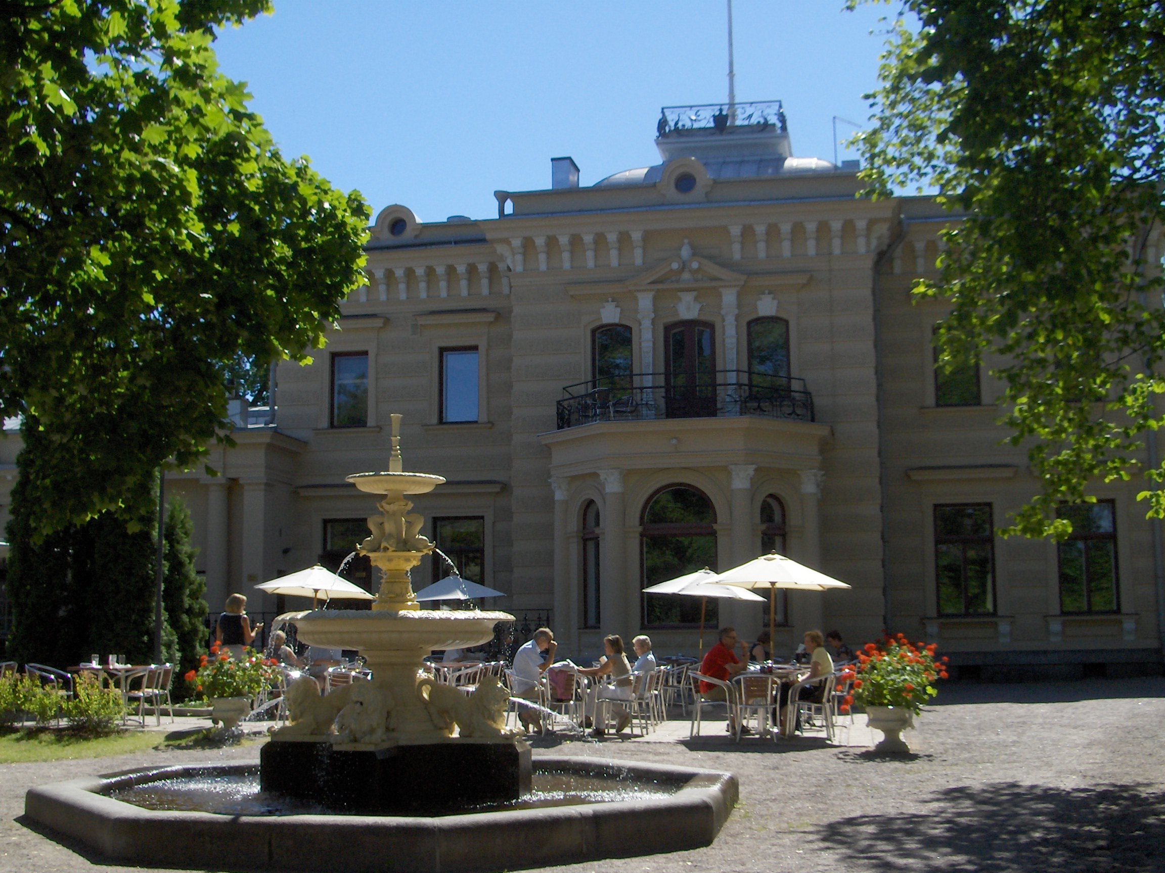 The Finlayson Palace in Tampere, Finland.